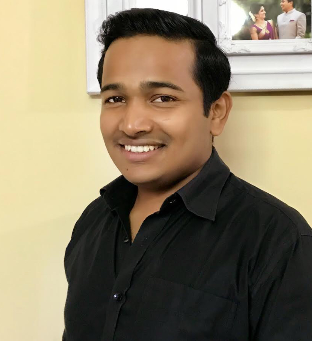 Malayalam Film Director Basil Joseph